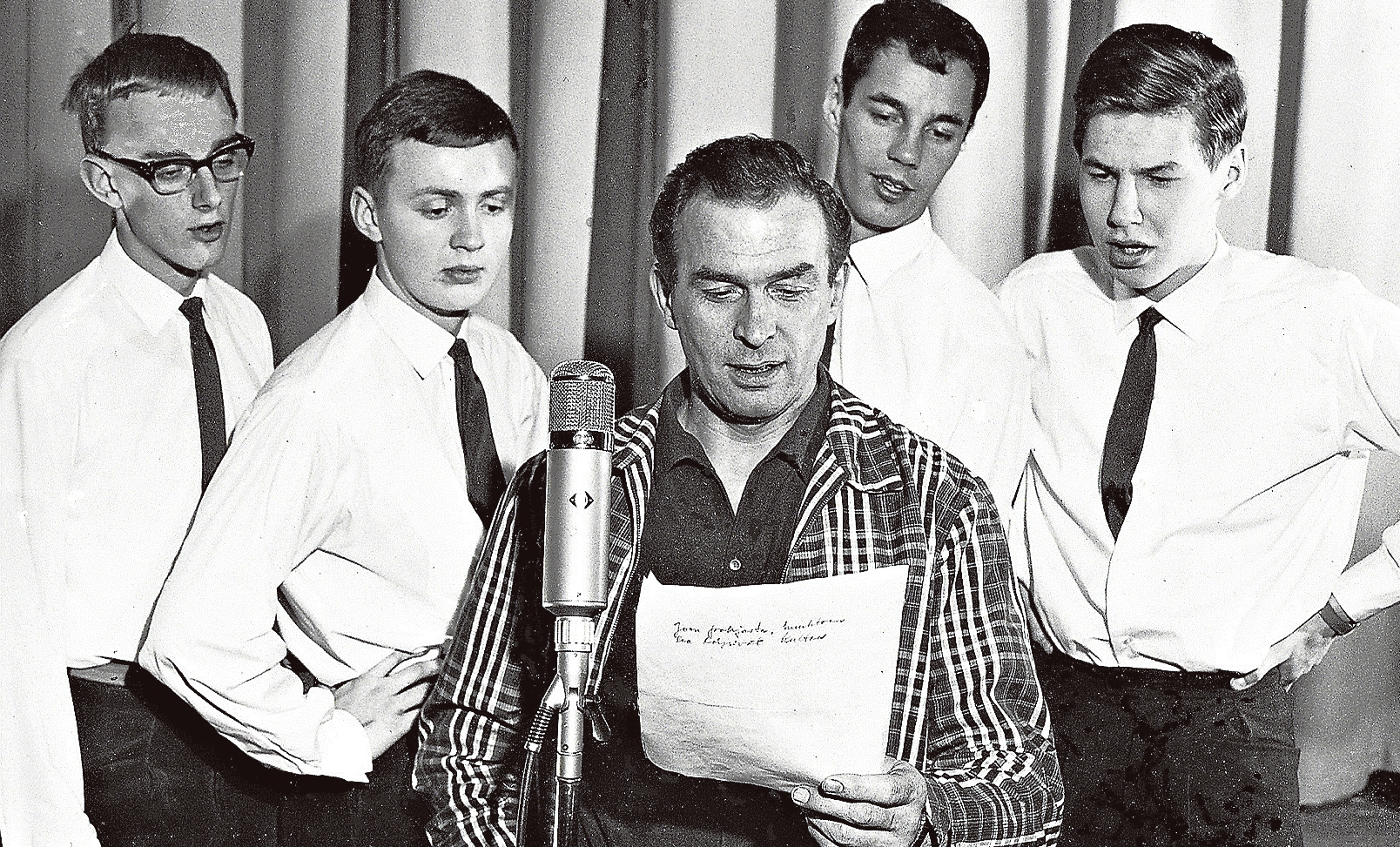 Photograph of the Finnish vocal group Neloset and Tapio Rautavaara at the recording studio. From left to right: Hannu Maristo, Jukka Kuoppamäki, Tapio Rautavaara, Jaakko Kyläsalo and Markku Marttiina